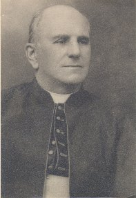 Marcel-François Richard, circa 1905.